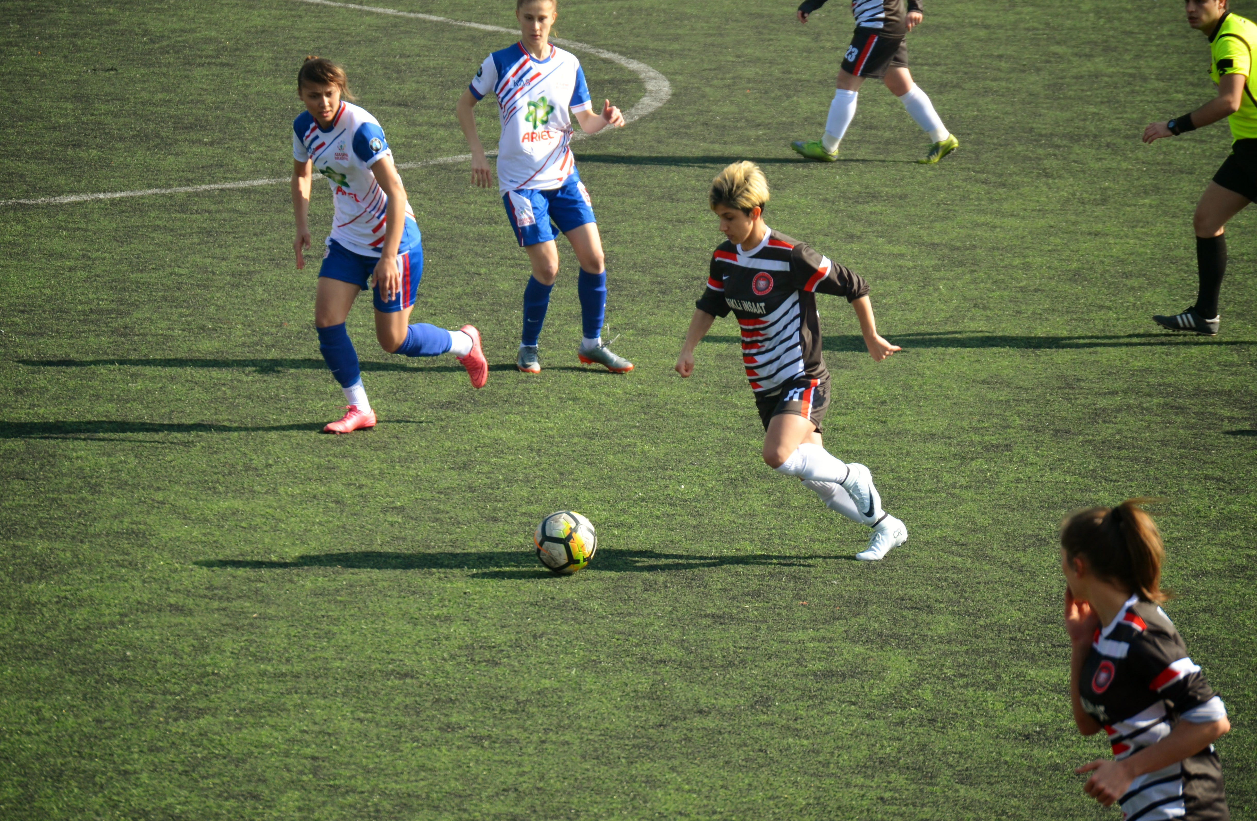 Fatma Ataş (# 11) of Fatih Vatan Spor in the 2017-18 Turkish Women's First League.